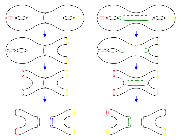 Two pants decompositions of the genus 2 closed surface. Note that they are not equivalent under the action of the mapping class group of the surface.